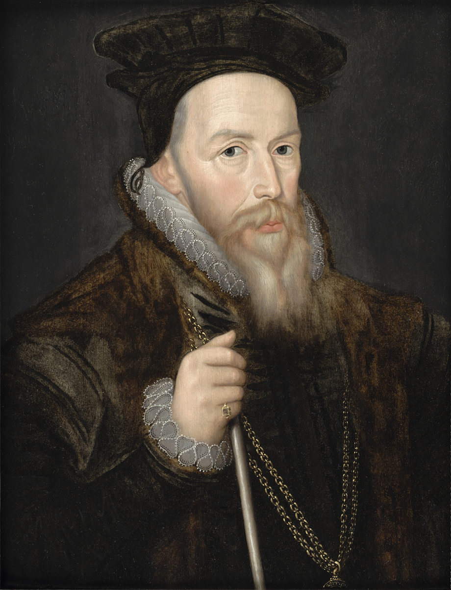 Portrait of William Cecil, Lord Burghley